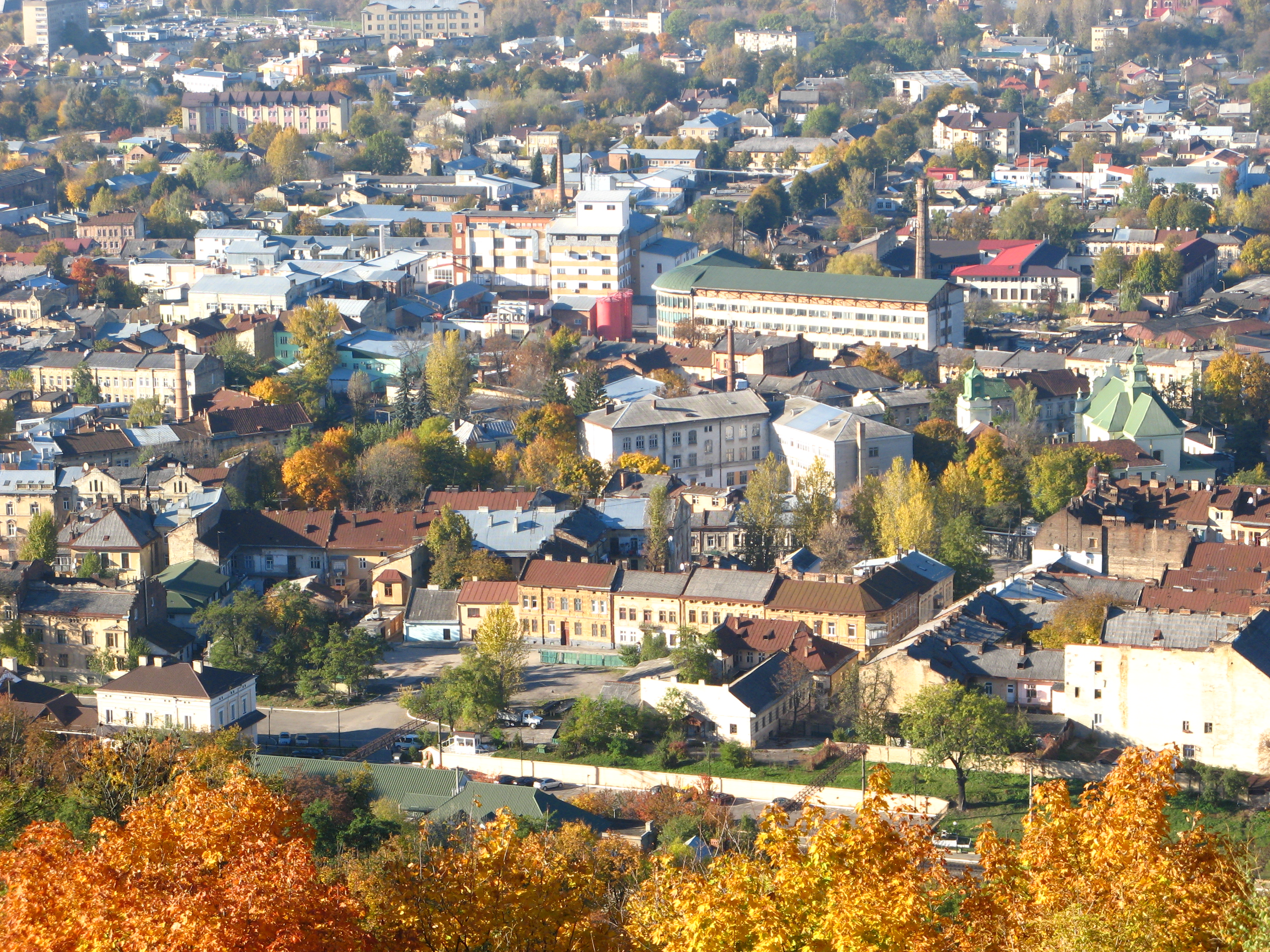 View of the area from the mountain High Castle